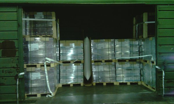 pnevmoobolochka in train